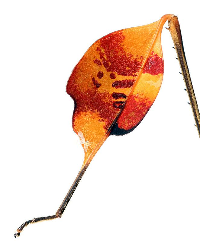 Left Hind Leg of Anisoscelis gradadia